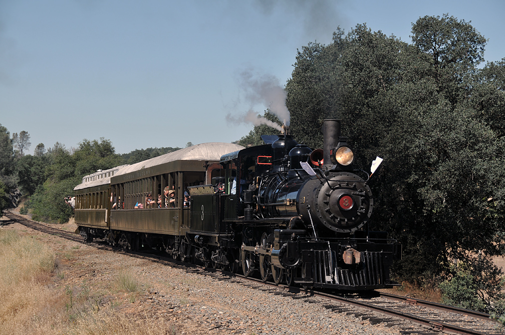 The first day of service after an overhaul which included a new boiler for the 1891 product of Rogers Locomotive Works.